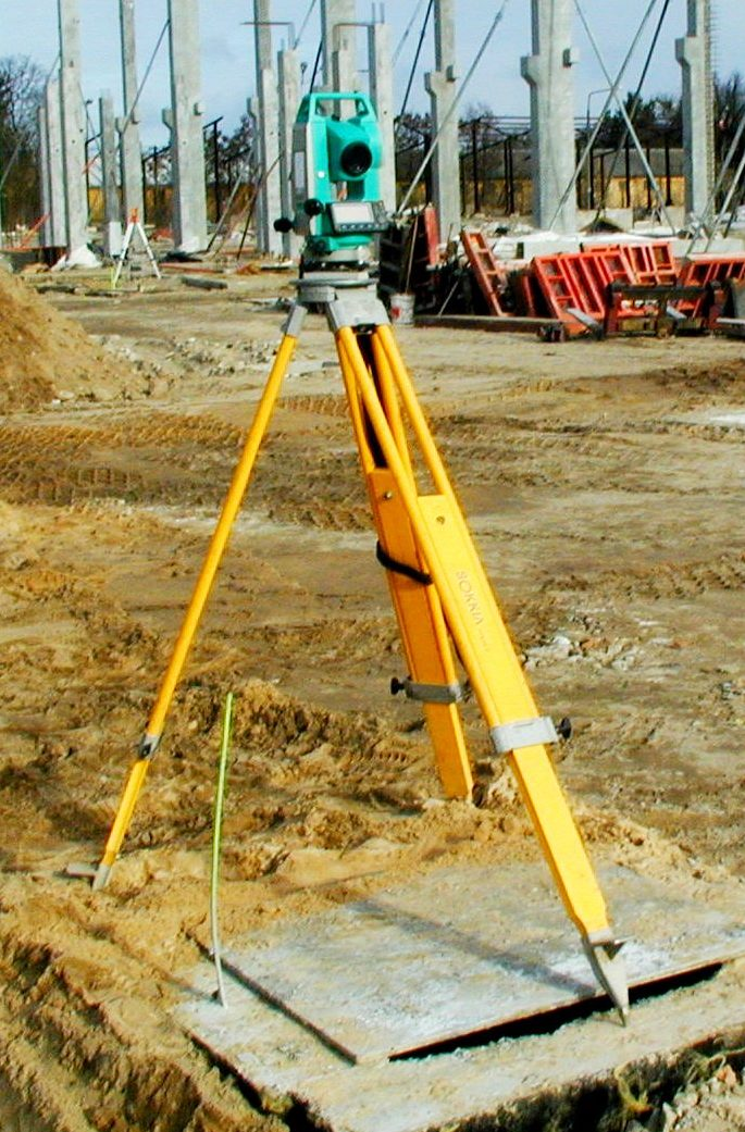 Total Stations